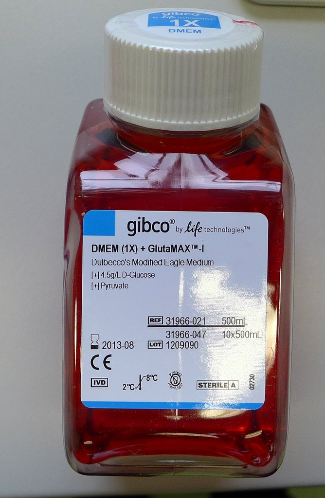 DMEM Medium Lifetech